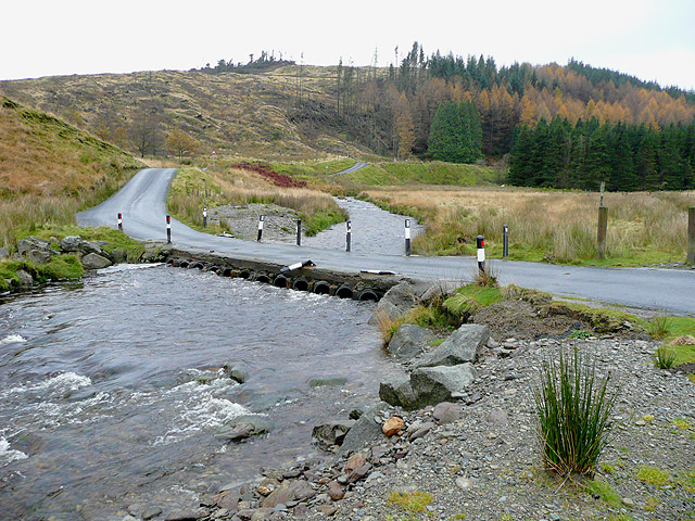 Afon Irfon, below the Devil's Staircase, Powys The former drovers' road to Tregaron crosses the Afon Irfon near Llanerch-yrfa three times in four hundred metres. This used to be by means of fords, as marked on most maps. (Does anyone have access to photographs showing how it used to be?). Now, each one has been built up by means of piped culverts under concrete/asphalt - a structure known as an Irish bridge. In times of flood, these are covered, and can be used as fords. Heavy rain fell about 36 hours before this image was taken, and a lot more was forecast as I made my "escape".